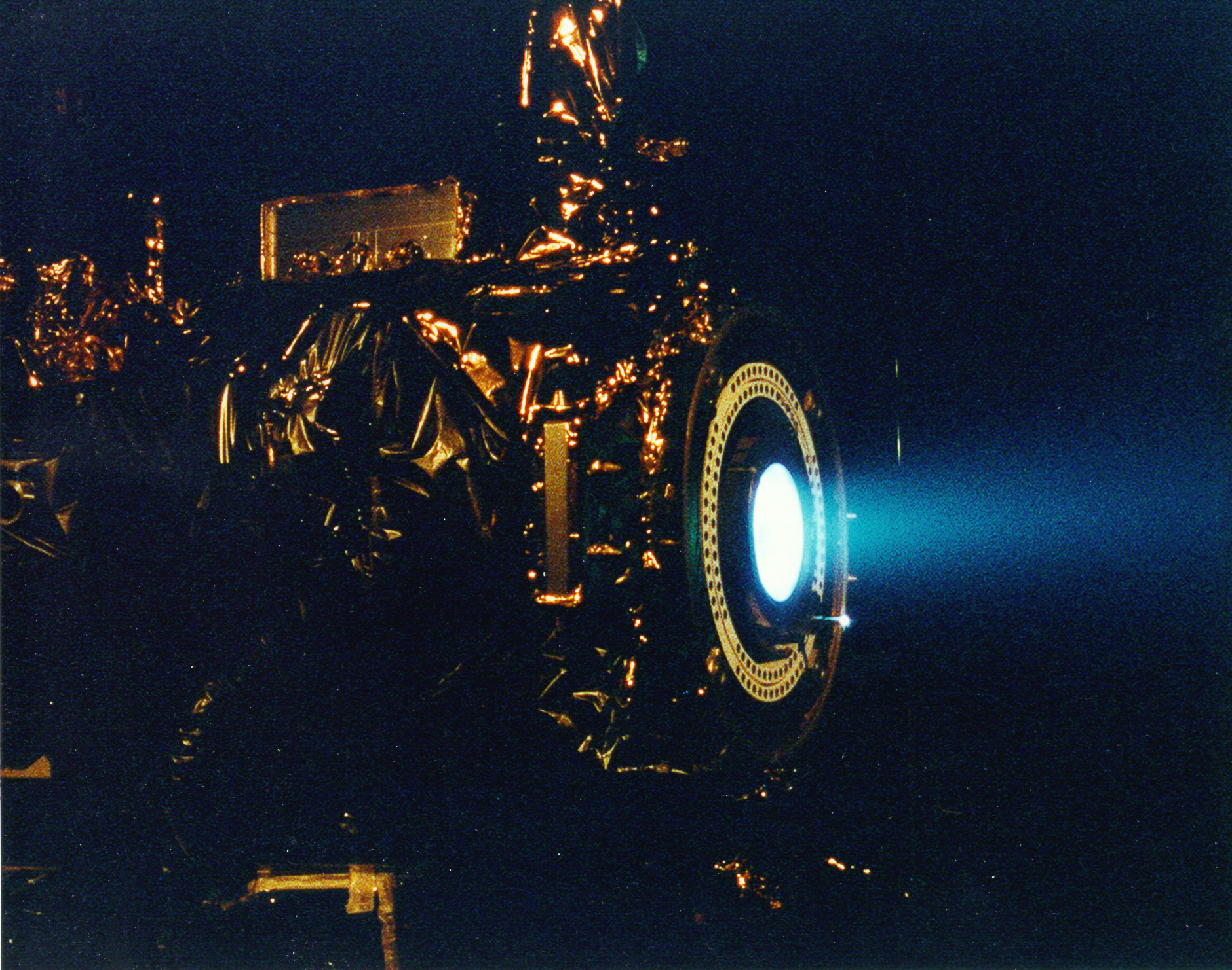 This image of a xenon ion engine, photographed through a port of the vacuum chamber where it was being tested at NASA's Jet Propulsion Laboratory, shows the faint blue glow of charged atoms being emitted from the engine. The ion propulsion engine is the first non-chemical propulsion to be used as the primary means of propelling a spacecraft. The first flight in NASA's New Millennium Program, Deep Space 1 is designed to validate 12 new technologies for scientific space missions of the next century. Ion propulsion was first proposed in the 1950s and NASA performed experiments on this highly efficient propulsion system in the 1960s, but it was not used aboard an American spacecraft until the 1990s. Deep Space 1 was launched in October 1998 as part of NASA's New Millennium Program, which is managed by JPL for NASA's Office of Space Science, Washington, DC. The California Institute of Technology in Pasadena manages JPL for NASA. The almost imperceptible thrust from the ion propulsion system is equivalent to the pressure exerted by a sheet of paper held in the palm of your hand. The ion engine is very slow to pick up speed, but over the long haul it can deliver 10 times as much thrust per pound of fuel as more traditional rockets. Unlike the fireworks of most chemical rockets using solid or liquid fuels, the ion drive emits only an eerie blue glow as ionized (electrically charged) atoms of xenon are pushed out of the engine. Xenon is the same gas found in photo flash tubes and many lighthouse bulbs.